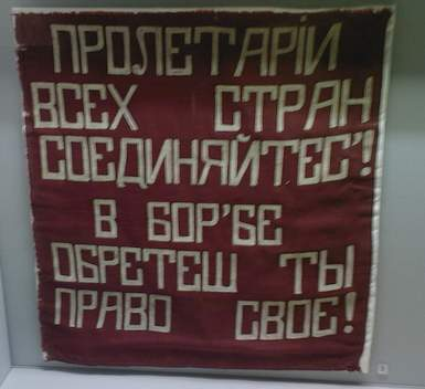 Red Army "Workers of the World Unite" - banner captured by Imperialist British troops invading Russia 1919 - Imperial War Museum North, Salford, Manchester.